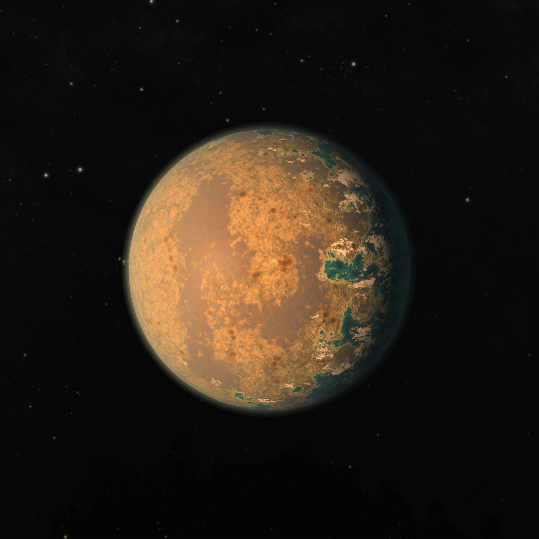 Artist's impression of the exoplanet TRAPPIST-1d, located in the Aquarius system of TRAPPIST-1. Originally created for NASA as part of their announcement of discoveries in the TRAPPIST-1 system on 22 February 2017. According to NASA, the planet is depicted as "rocky", and "has water only in a thin band along the terminator, dividing the day side and night side." Screenshotted and cropped from File:PIA21468 - TRAPPIST-1 Planets - Flyaround Animation.ogg.